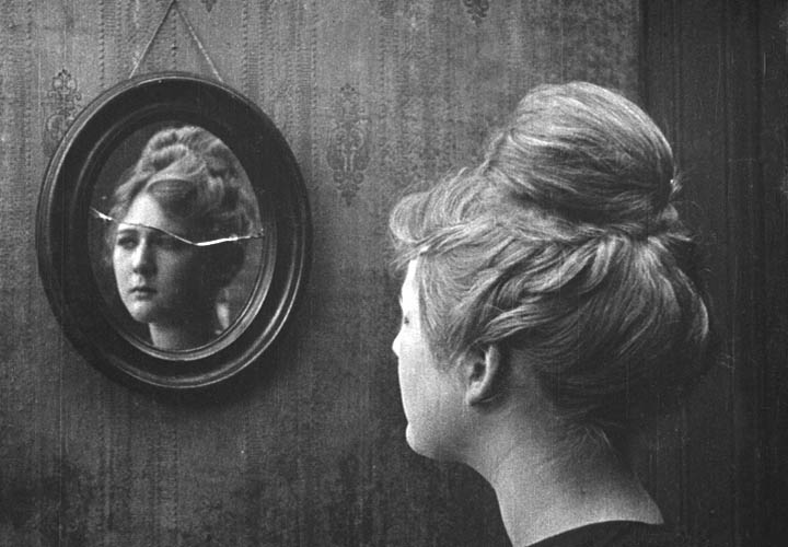 Screenshot from Shoes (1916) featuring actress Mary MacLaren, directed by Lois Weber.